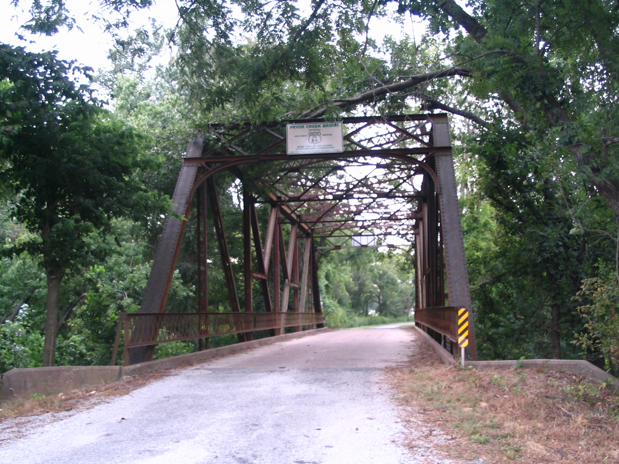 Photo of the Pryor Creek Bridge just east of Chelsea OK.